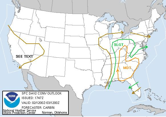 Severe weather proabality outlook for January 2, 2006